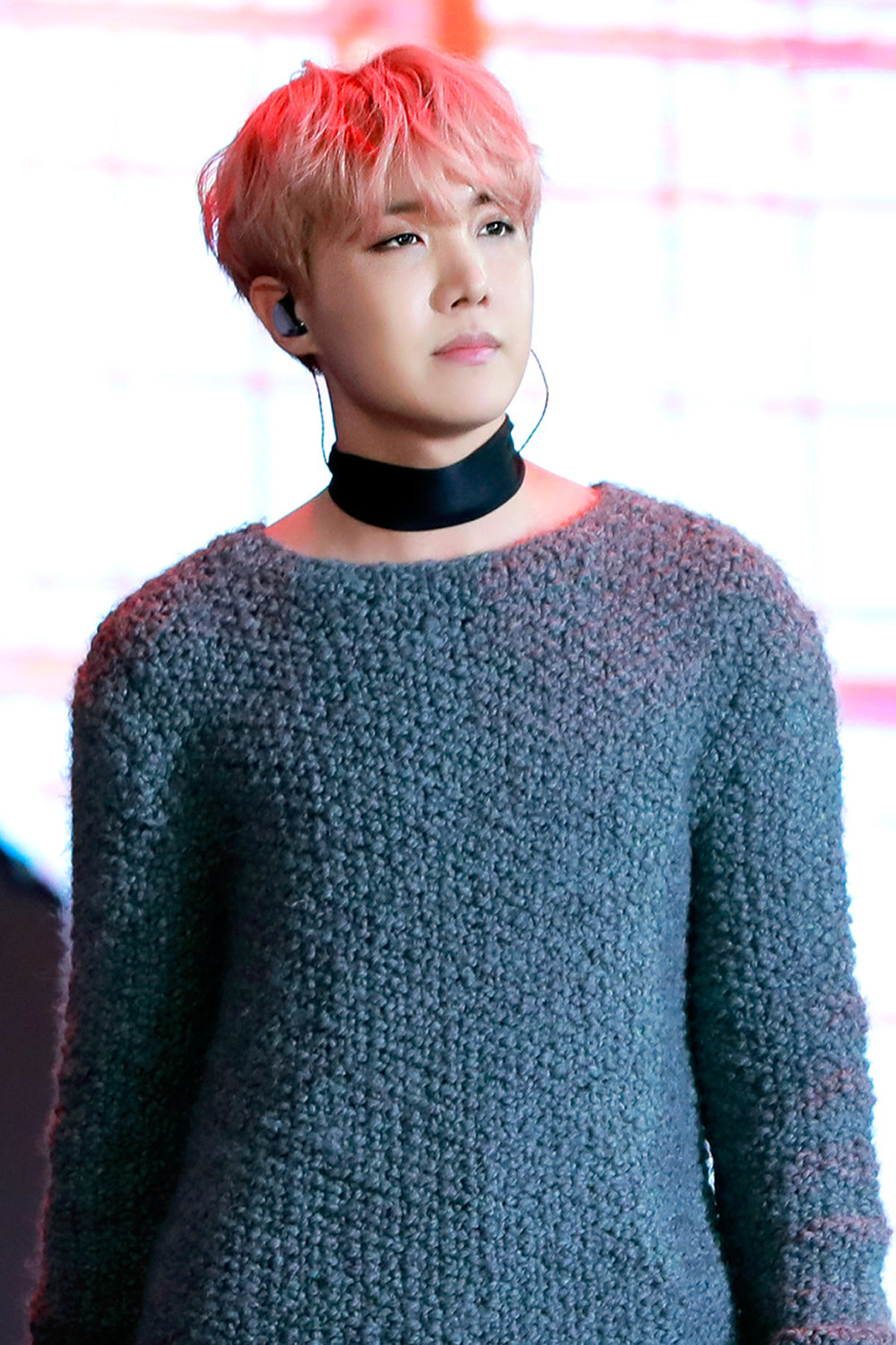 J-Hope at the 31st Golden Disc Awards on January 14, 2017.